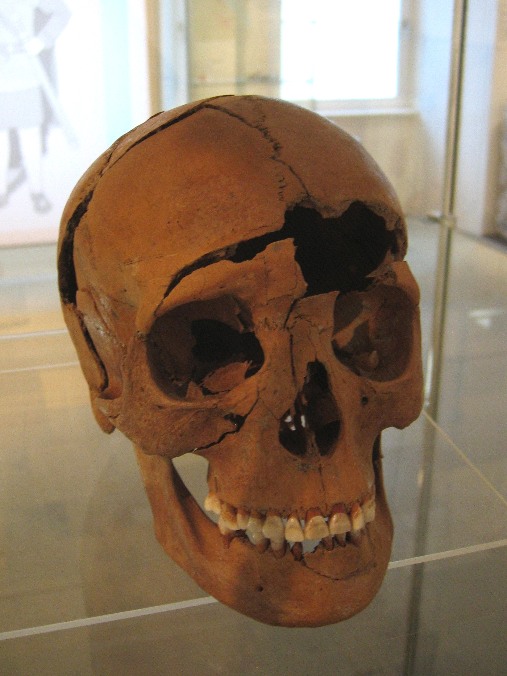 Skull of a 20-30 years old decapitated woman of the 3rd century AD, found in the well of roman villa rustica in Regensburg-Harting, Germany. The skull has been hit three times by a sharp weapon. Cutting marks above the right eye hole showing that the head has been scalped. Photographed at Regensburg Museum of History, Germany.